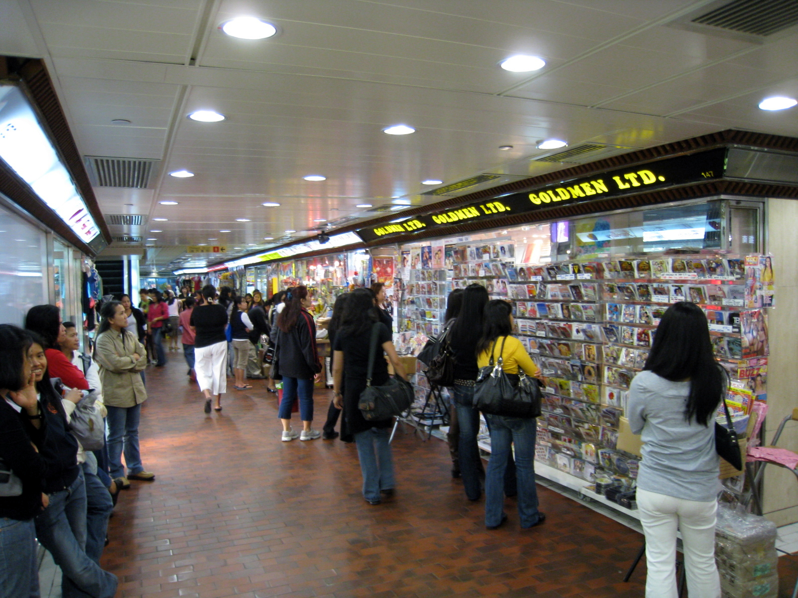 HK World Wide House Shopping Aracde Corridor